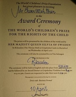 Invitation to the world's children prize Award Ceremony 2017